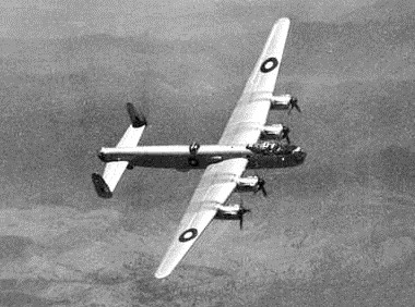 Melbourne, Vic. c. November 1946. An RAAF Avro Lincoln bomber aircraft built under licence at the Government Aircraft Factory at Fishermens Bend, shown during a demonstration flight.